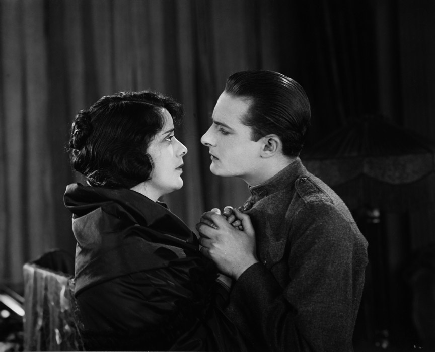 Alma Rubens & Gaston Glass in Humoresque - cropped screenshot